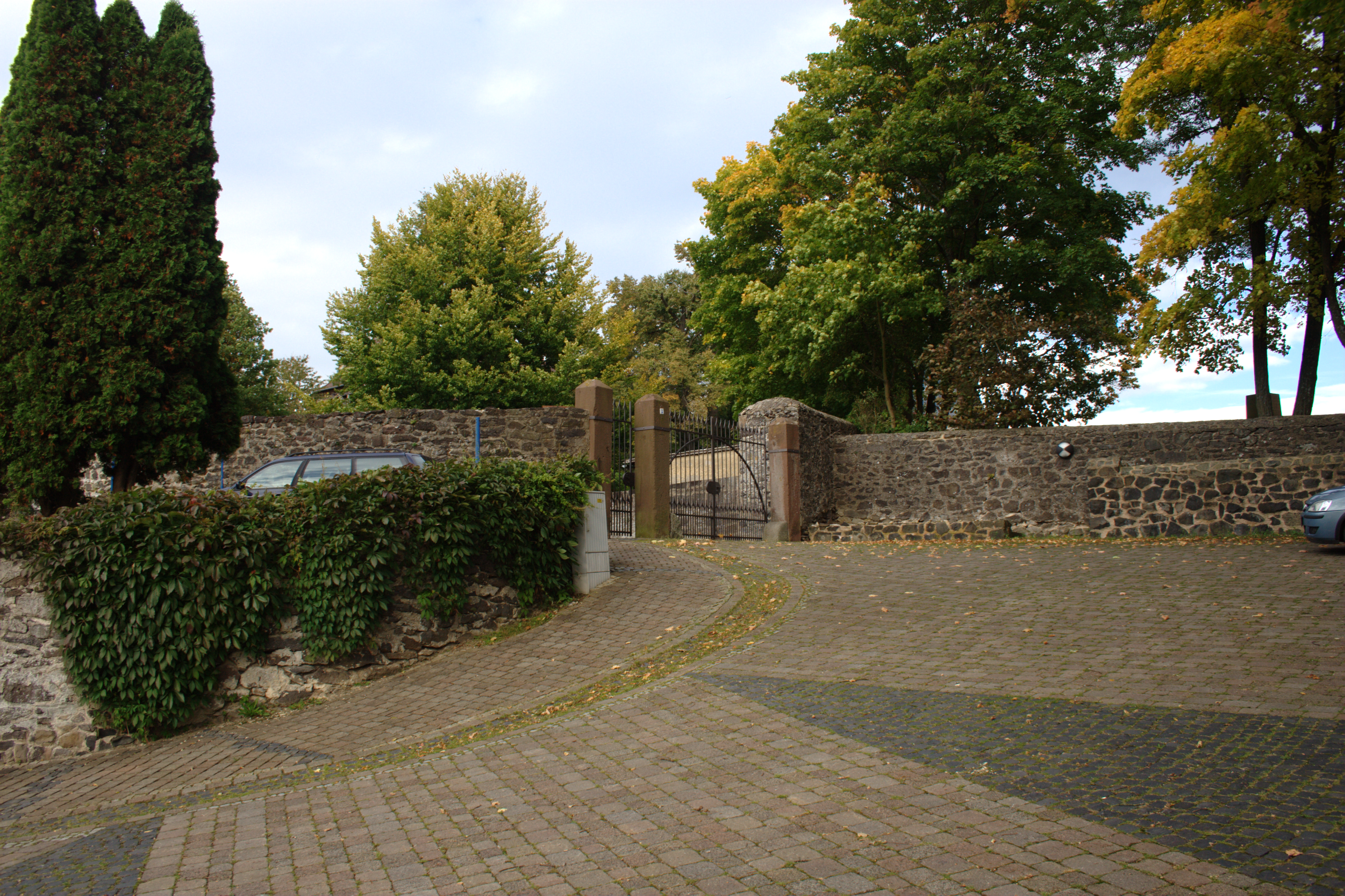 Burg in Burg-Gemünden / Gemünden (Felda) / Hesse / GermanyThis is a photograph of an architectural monument.